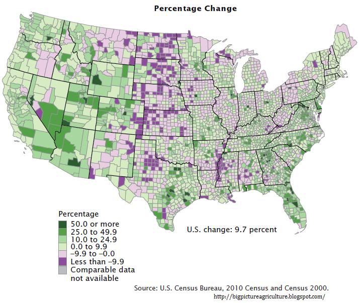 A map showing changes in population of US counties between 2000 and 2010